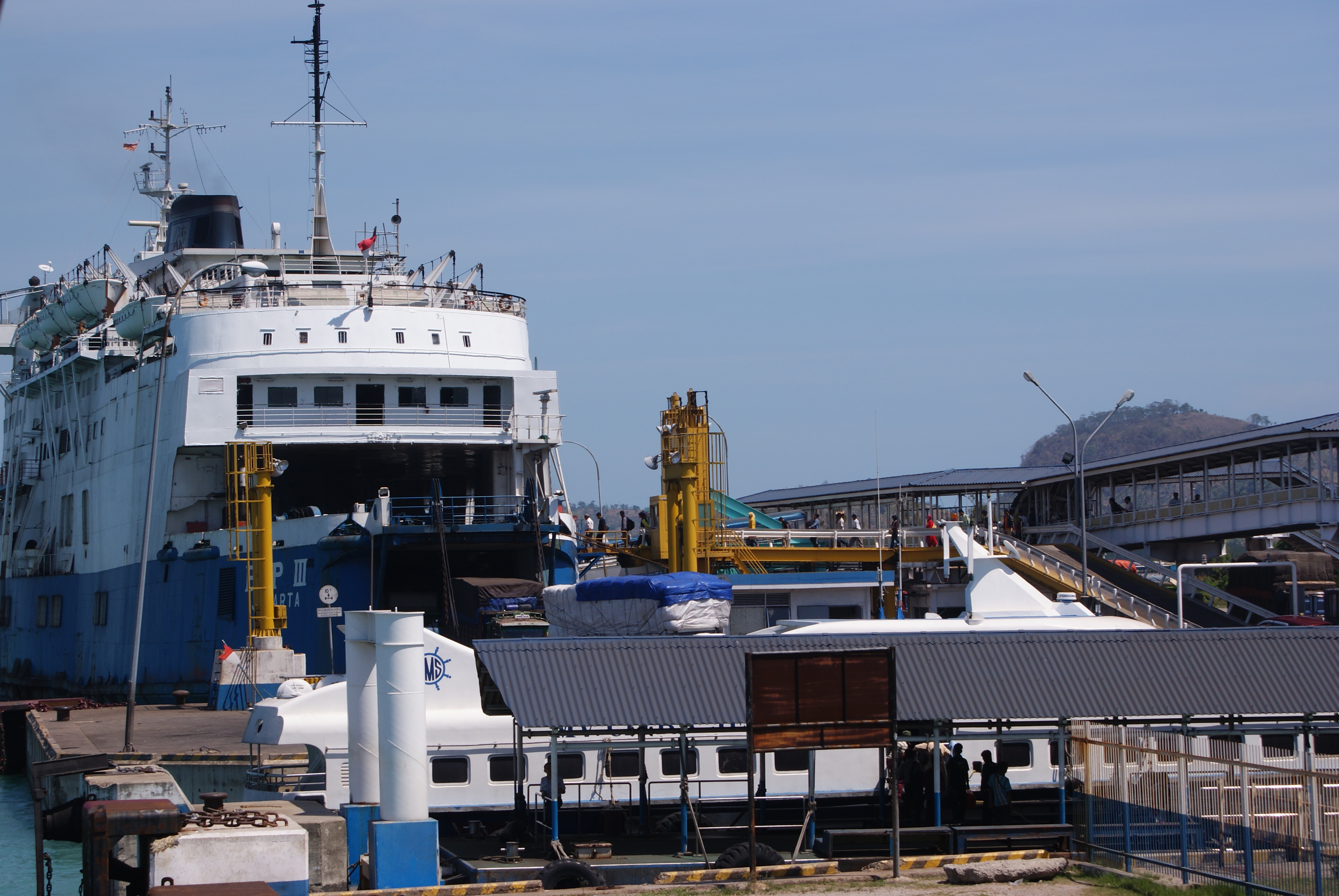 Port of Bakauheni, Lampung, Indonesia Shipname: BSP III IMO number: 7230616